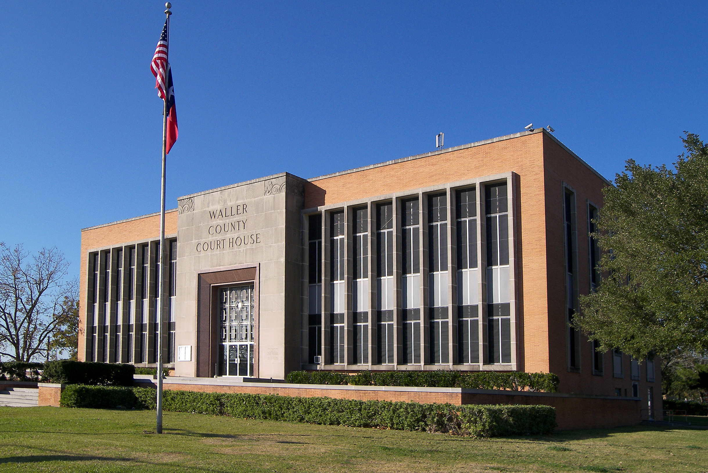 The Waller County Courthouse located in Hempstead, Texas, United States.